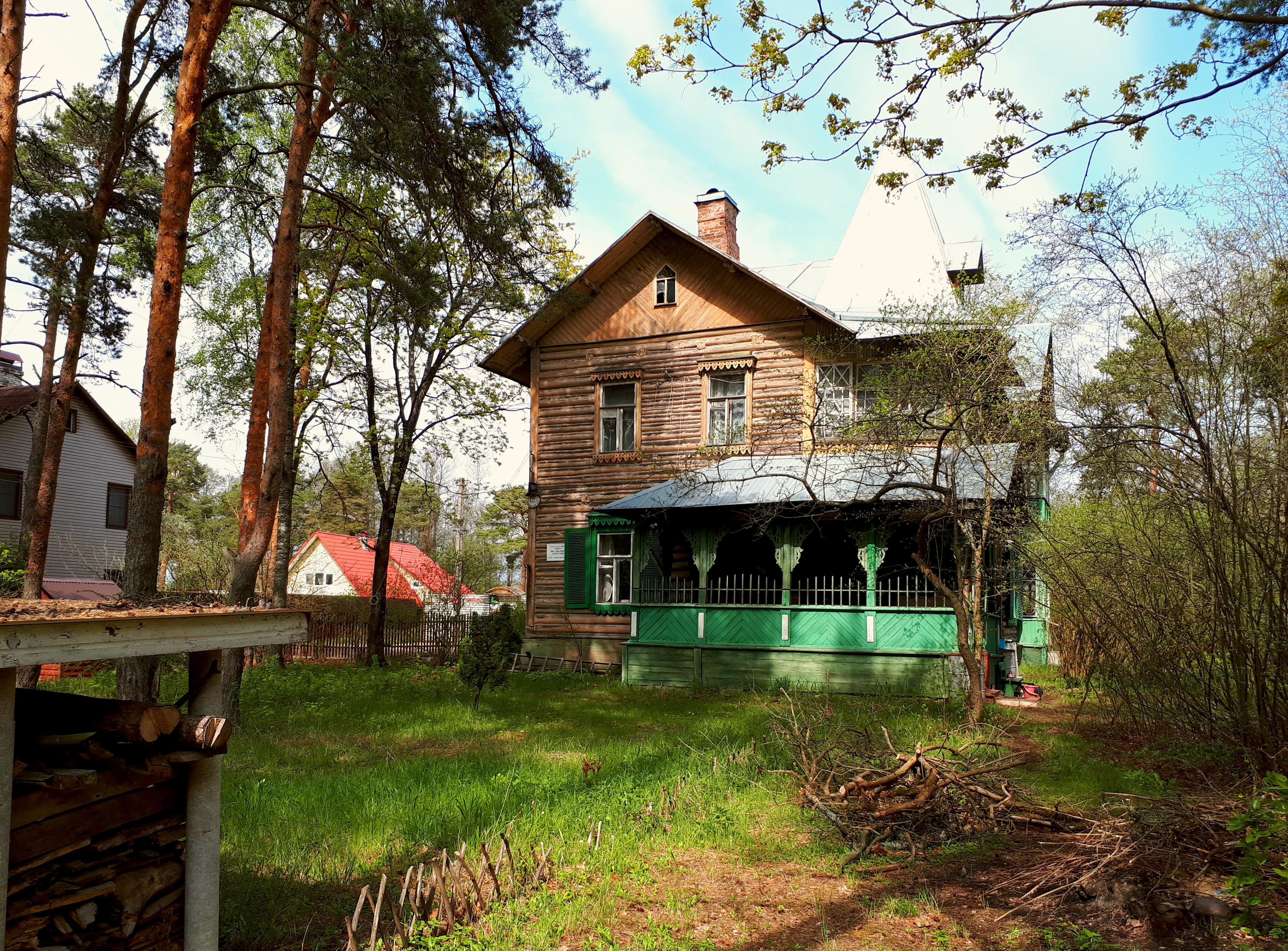 House of the Gagen-Torn family: Bolshaya Izhora, Lomonosovsky District, Leningrad Region